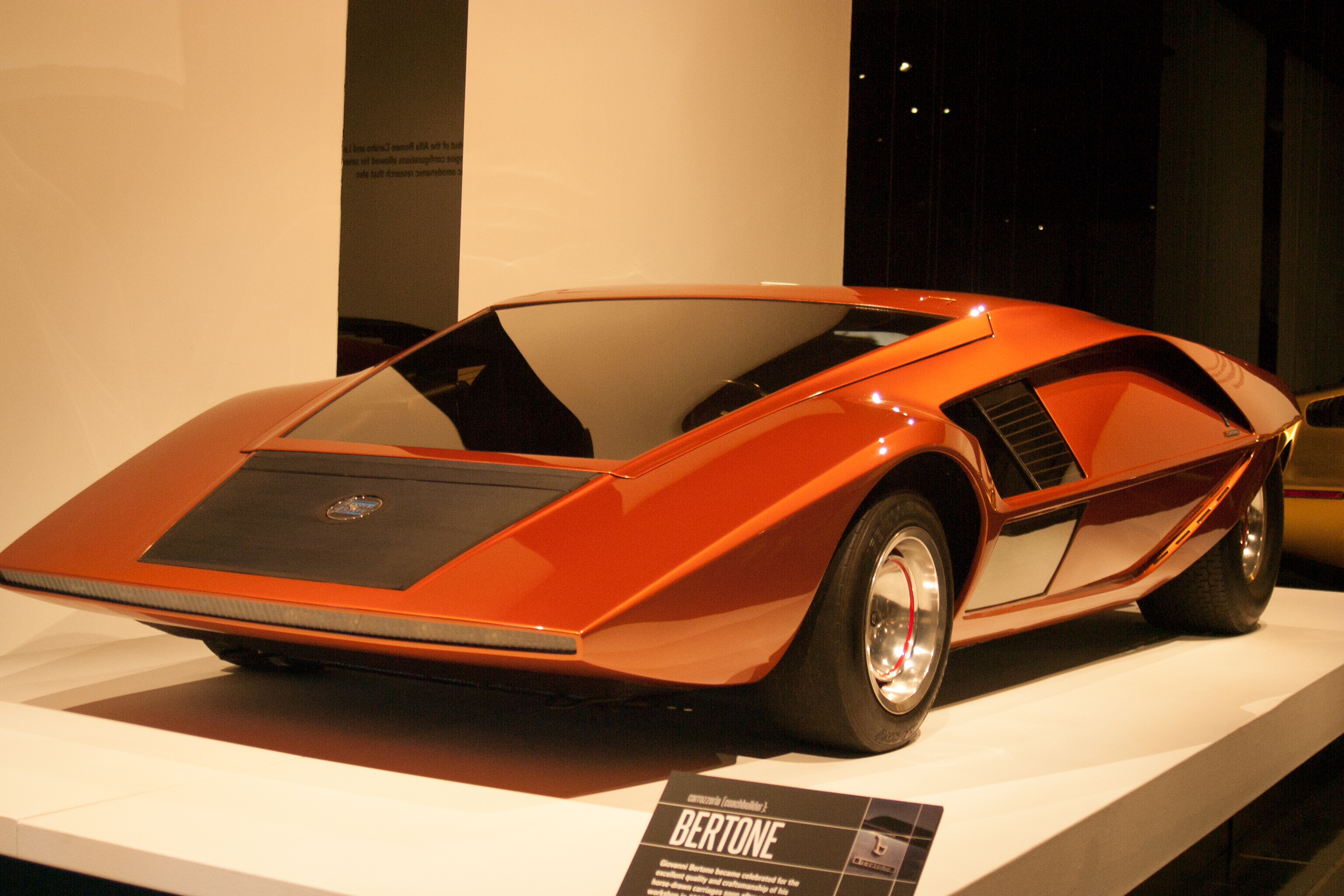 Lancia Stratos Zero on display at the Petersen Automotive